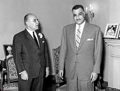 Egyptian President Gamal Abdel Nasser receiving Lebanese Prime Minister Saeb Salam in Damascus during the United Arab Republic period